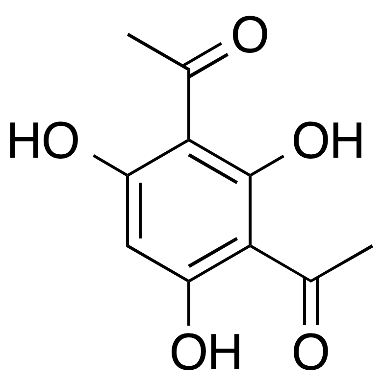 Chemical structure of 2,4-diacetylphloroglucinol